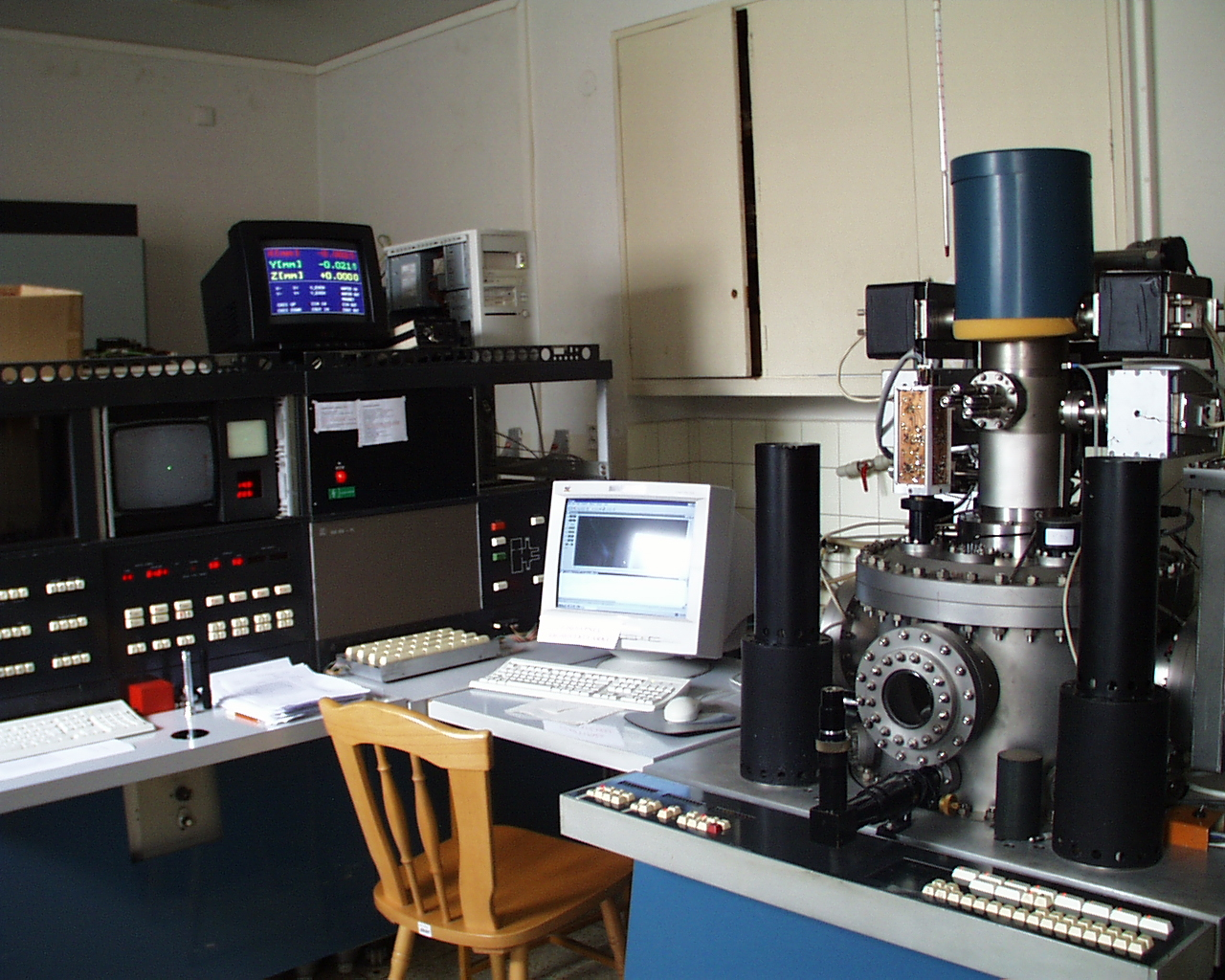 Electron beam lithograph